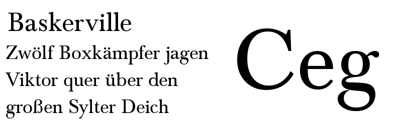 german pangram in typeface Baskerville